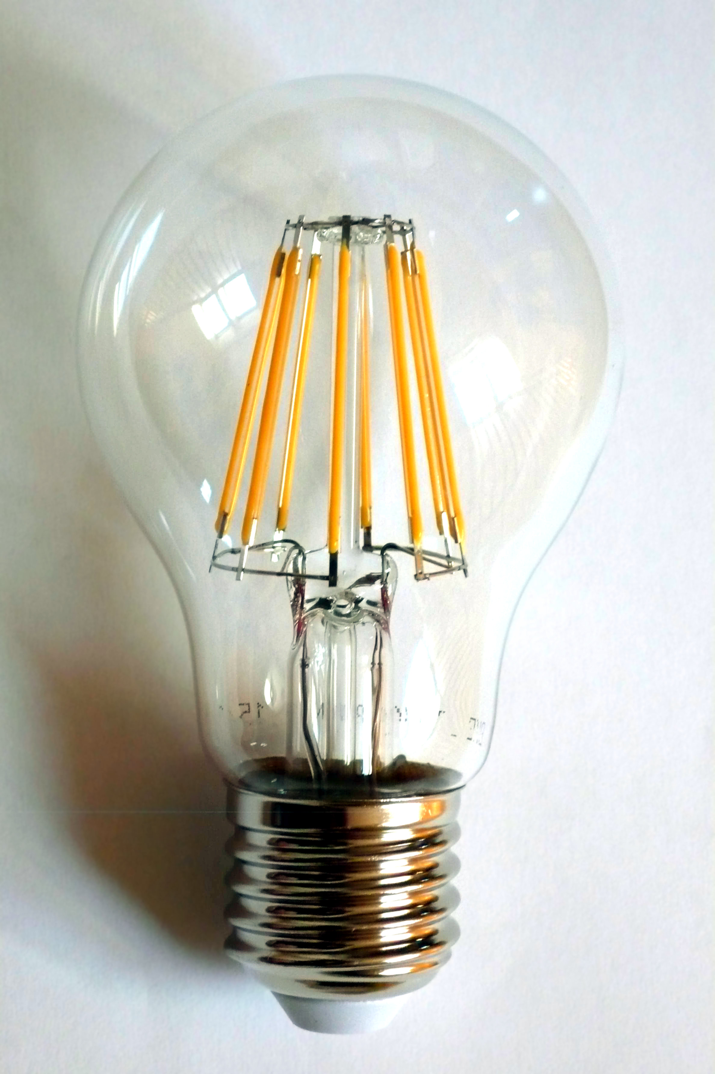 LED filament light bulb E27, 230V, 8W, 830lm, 2700K